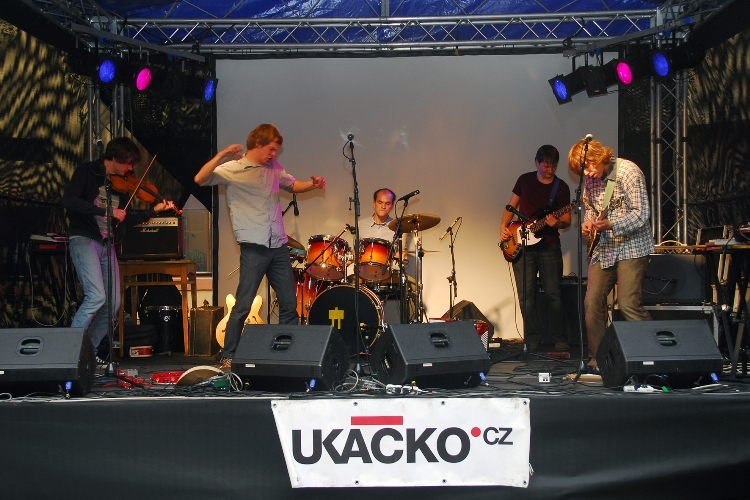 Jarmark 2010